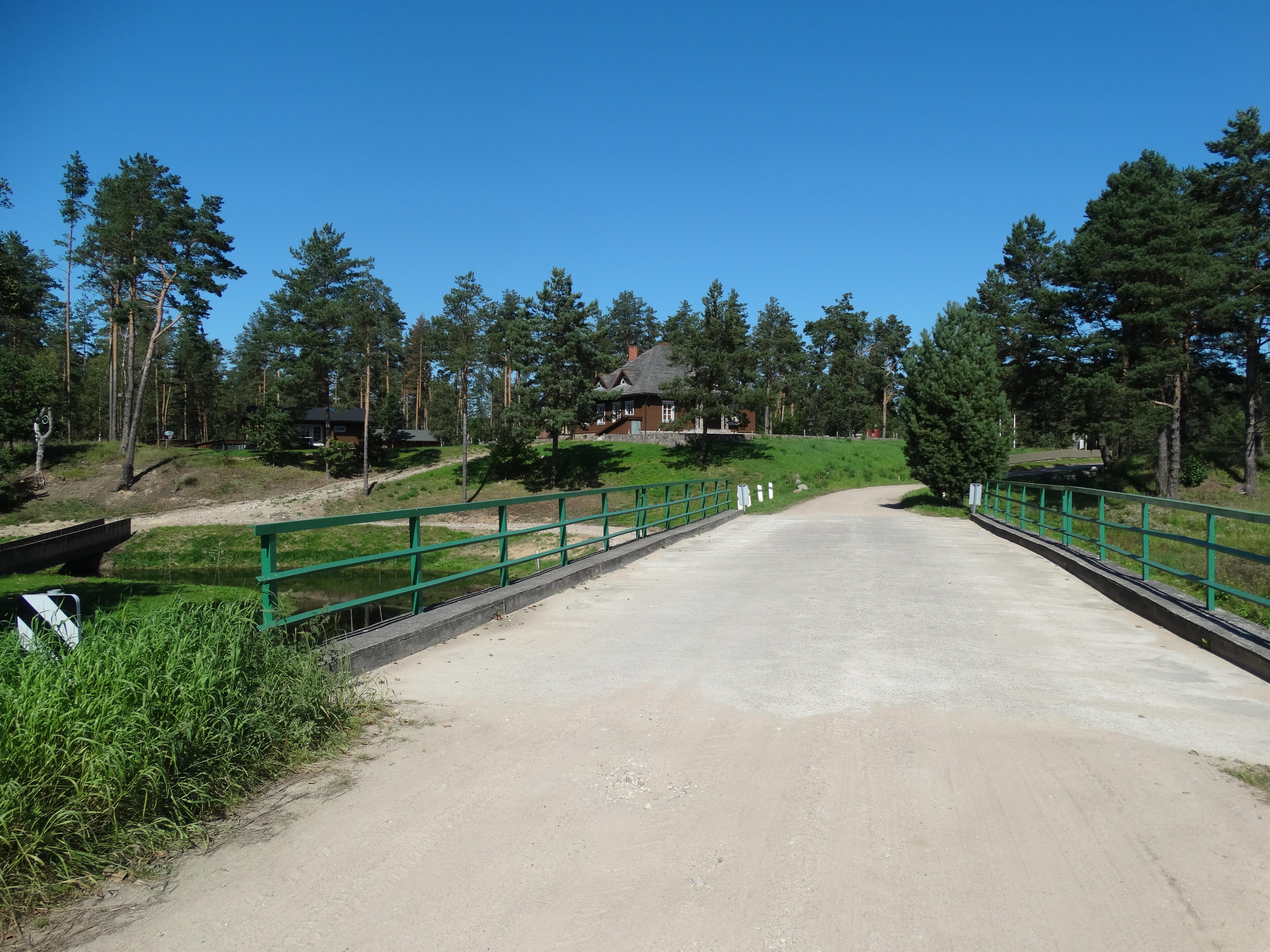 Zalavas, Švenčionys district, Lithuania